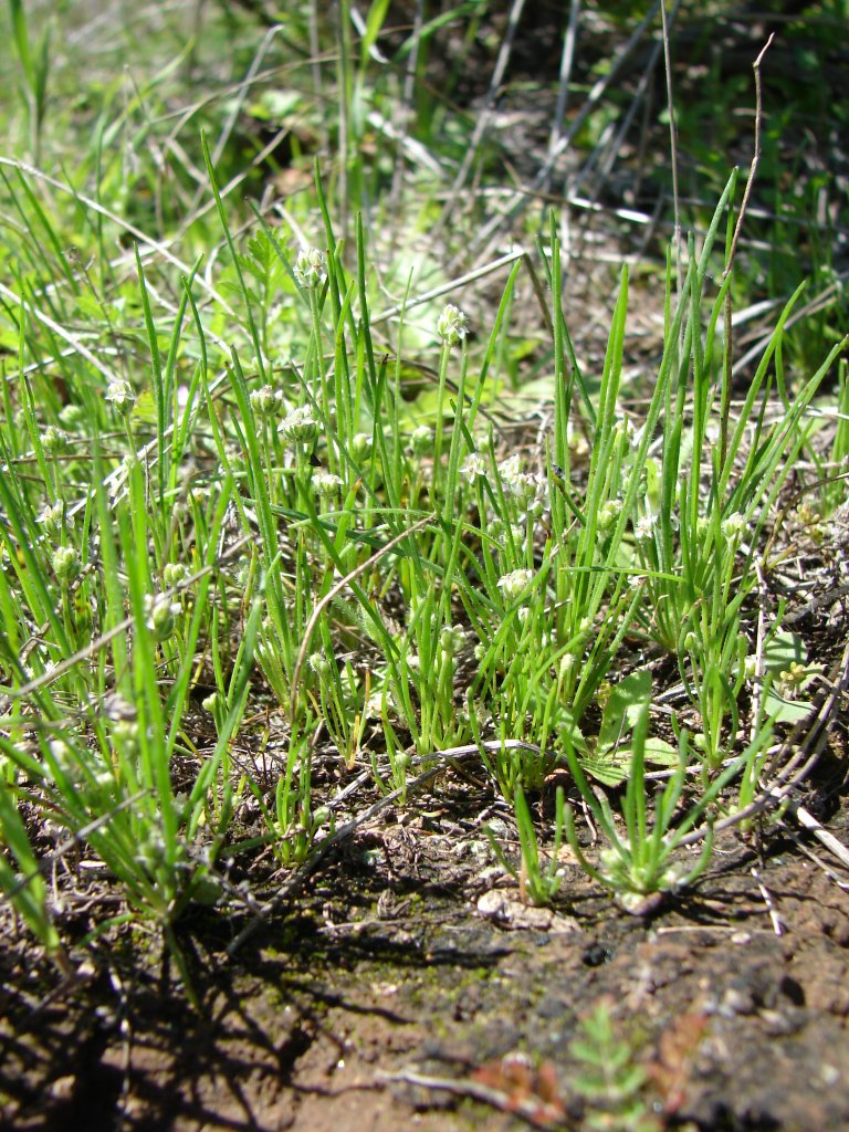 Source: USFWS